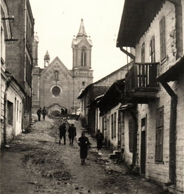 Sanok, Łazienna street 1941